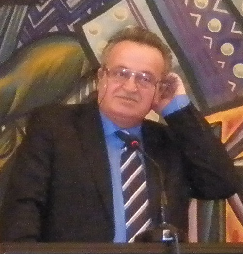 Nikolay Petev